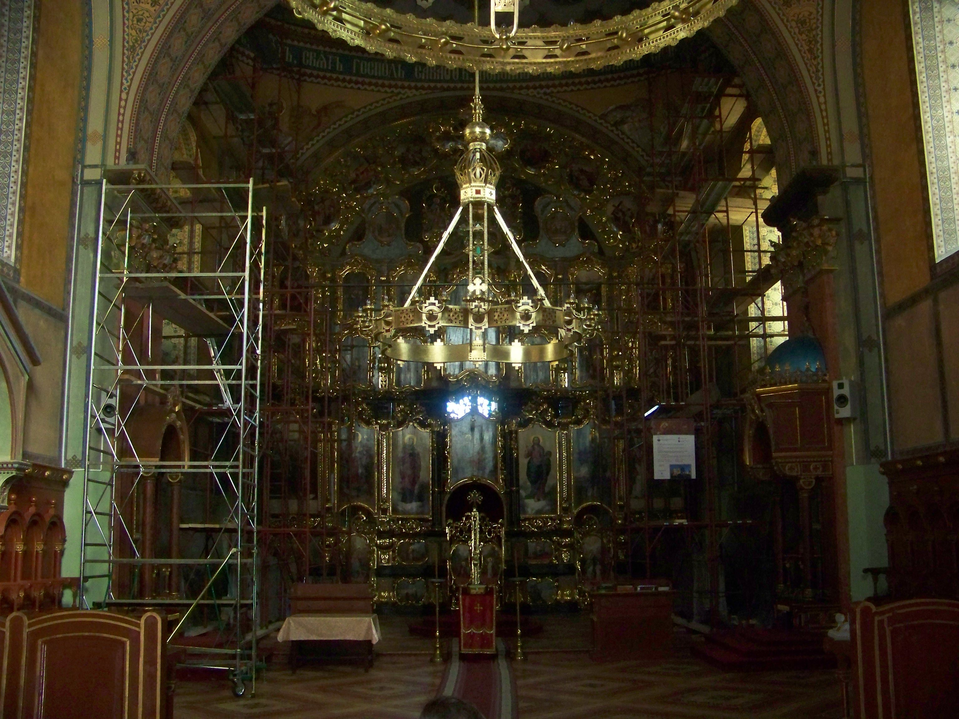 Sremski Karlovci, St. Nikola Orthodox church